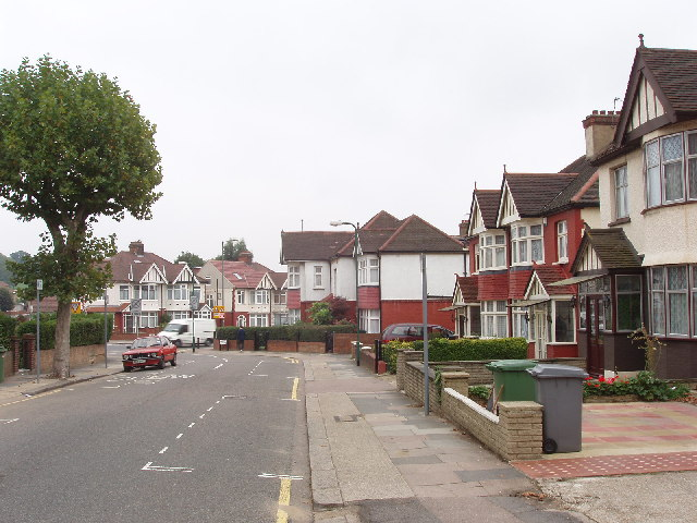 Prout Grove, Neasden. Typical 1930s semi-detached houses